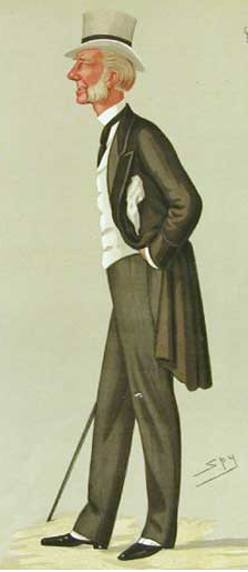 Caricature of Augustus FitzRoy, 7th Duke of Grafton. Caption read "Charles II".